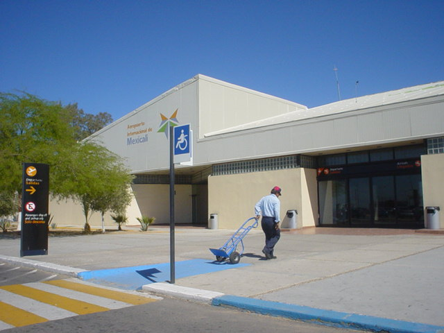 Mexicali International Airport. Terminal building.